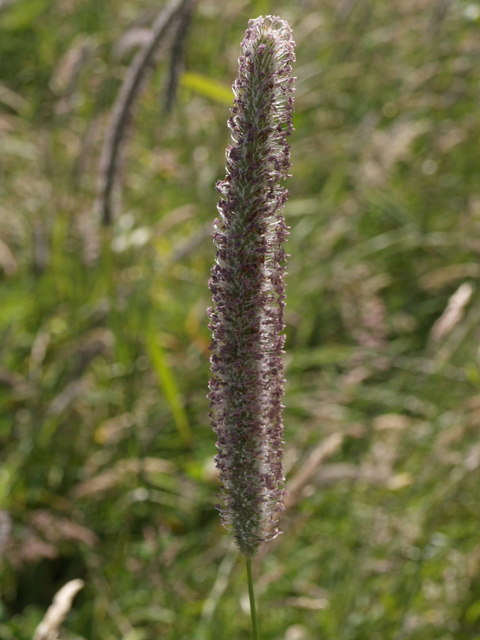 Timothy. Phleum pratense - a close-up of a flower-head of one of the grasses in 488548.